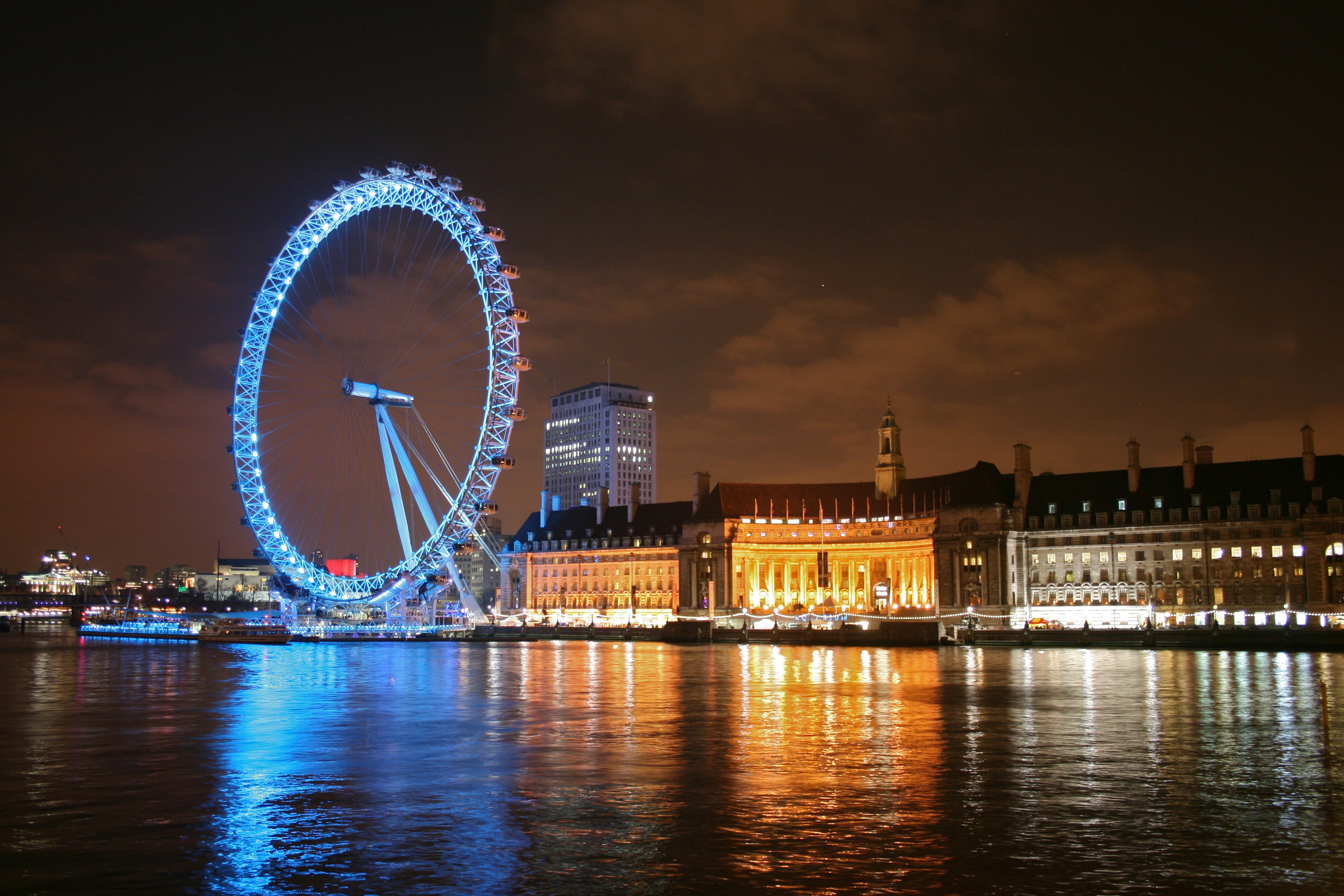 The London Eye in London, England. I believe that the bright dot in the sky is the planet Mars.